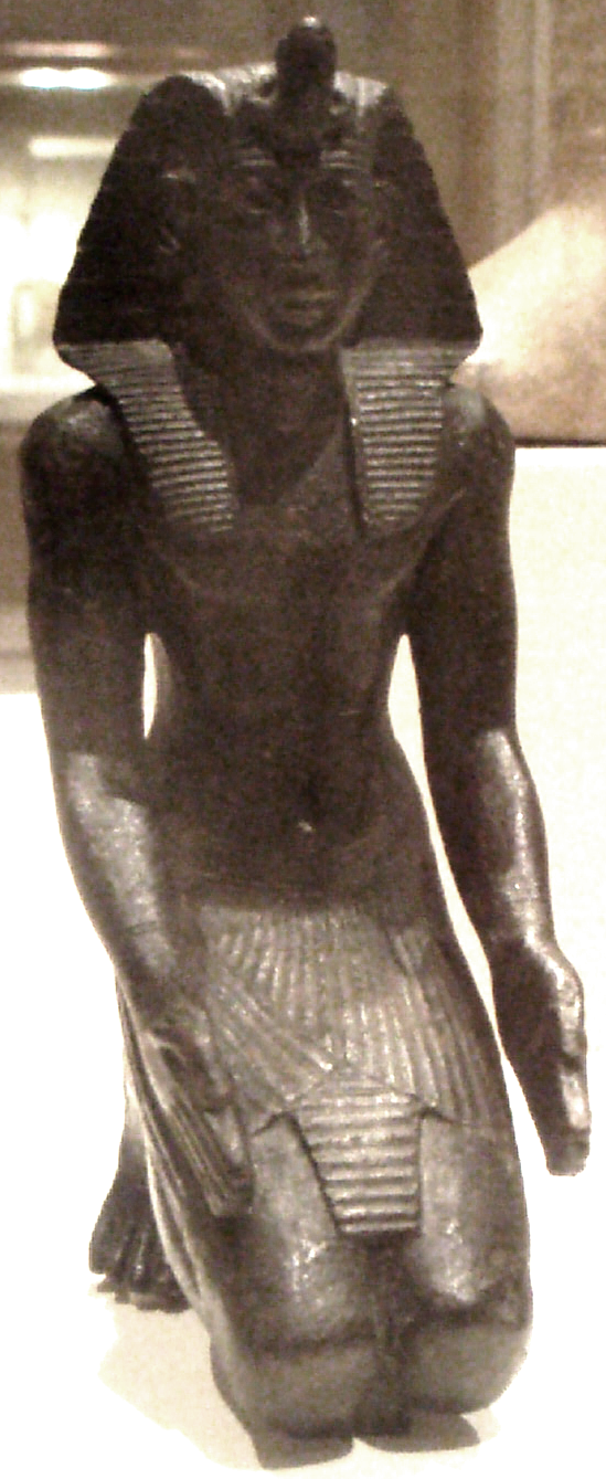 Bronze kneeling statuette of the pharaoh Necho (either Necho I, circa 673-664 B.C., or Necho II, circa 610-595 B.C.)